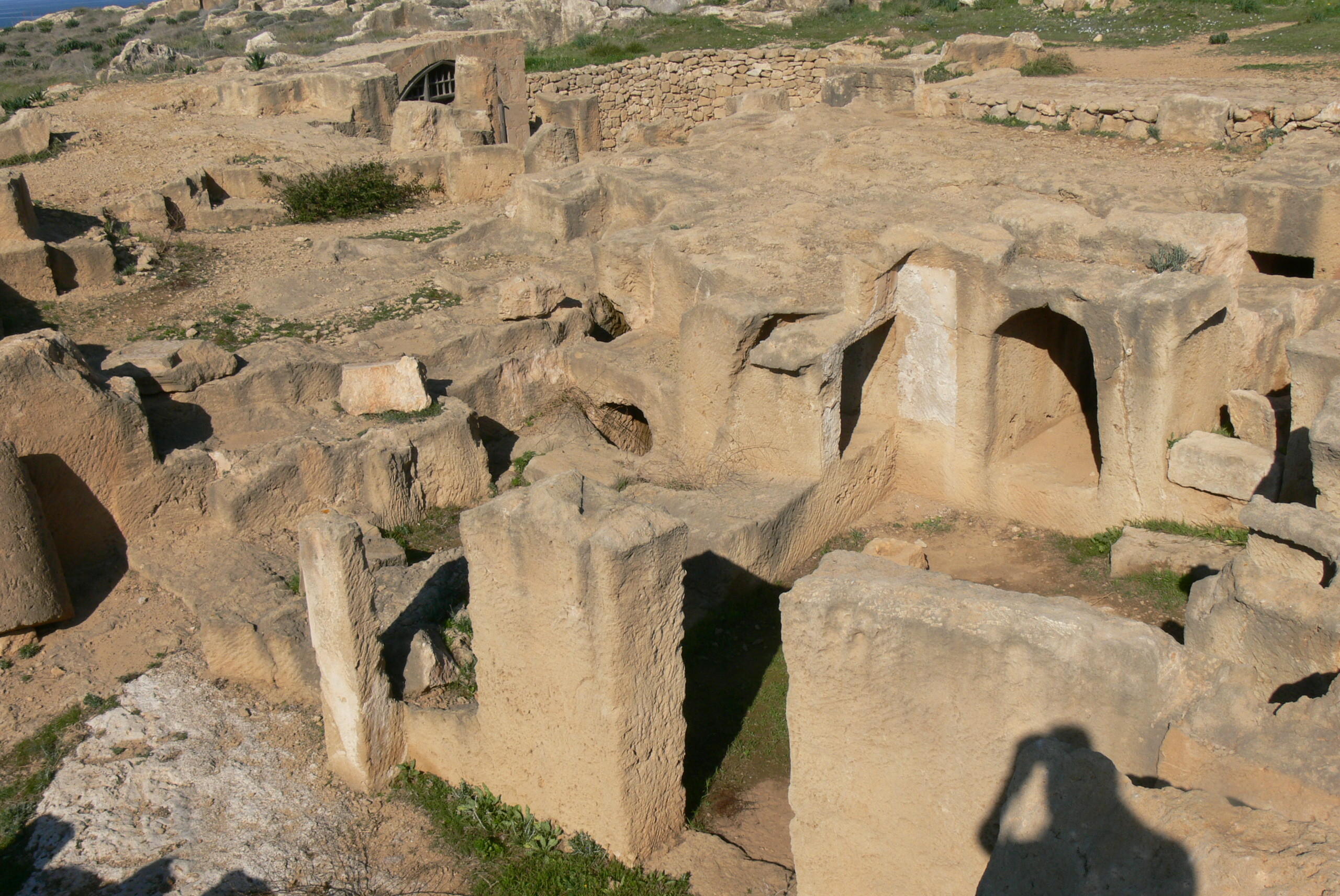 Paphos ( Cyprus ). Tombs of the Kings: Archaeological site.